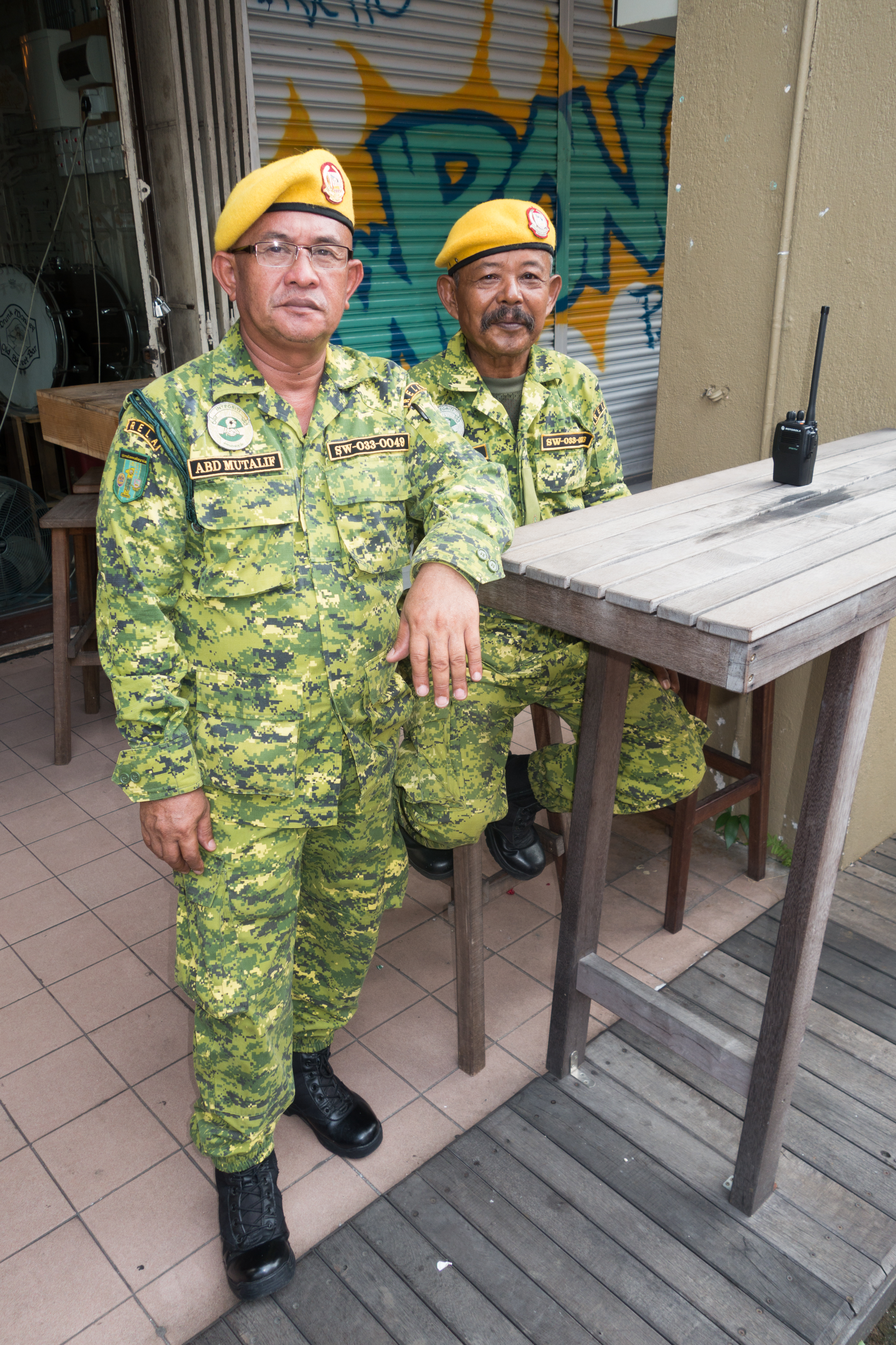 Kuching, Sarawak, Borneo, Malaysia